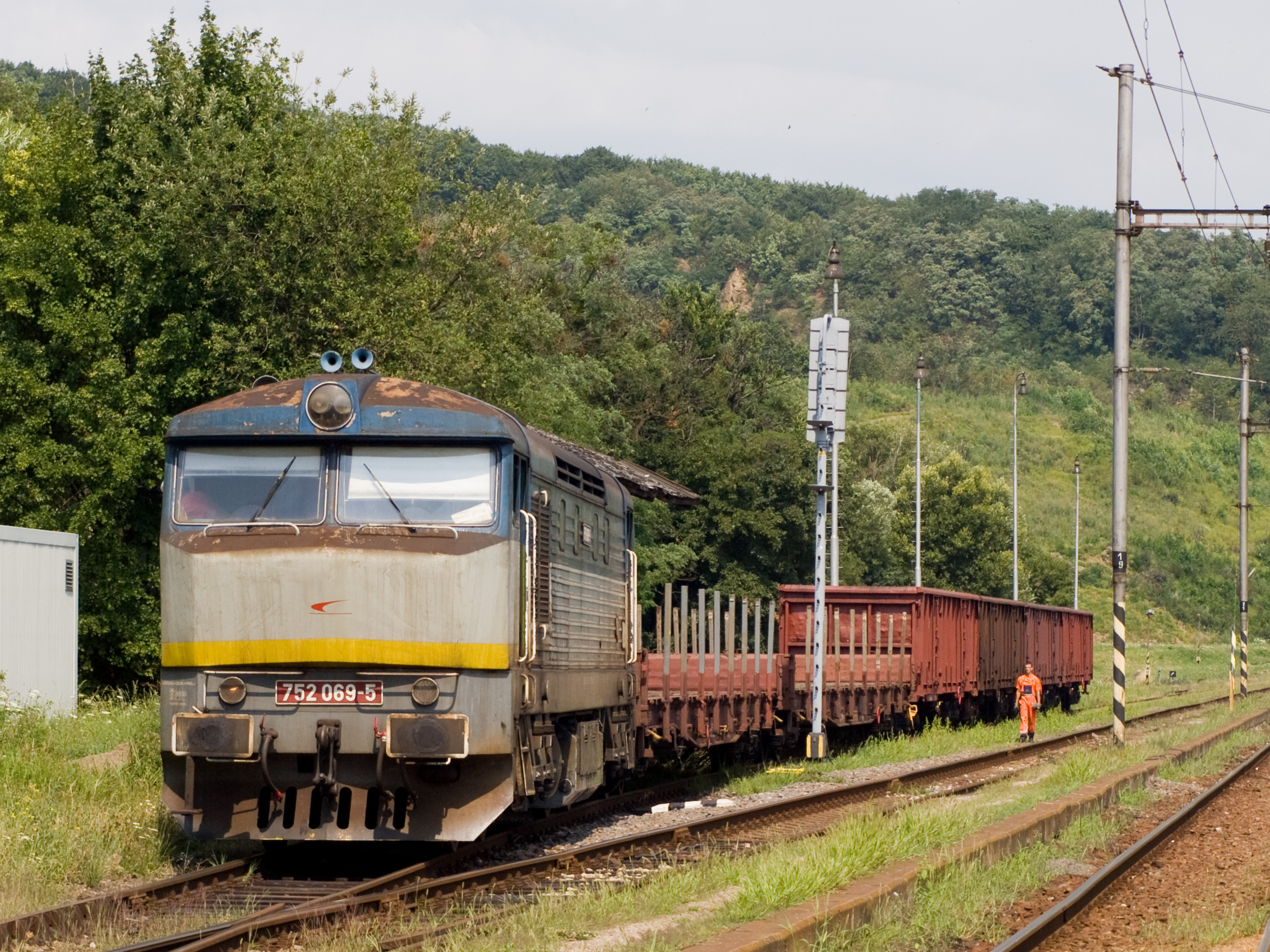 Train station, Slanec, Košice-okolie District